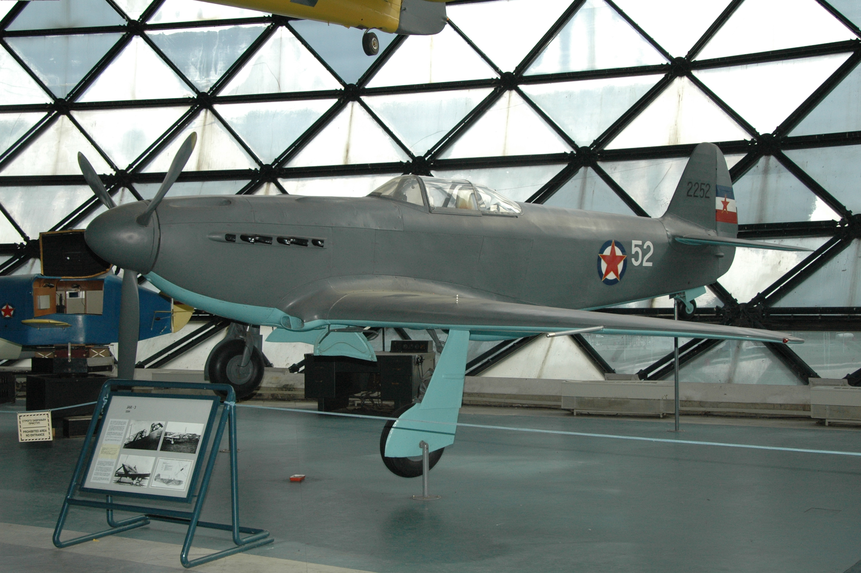 Jak 3